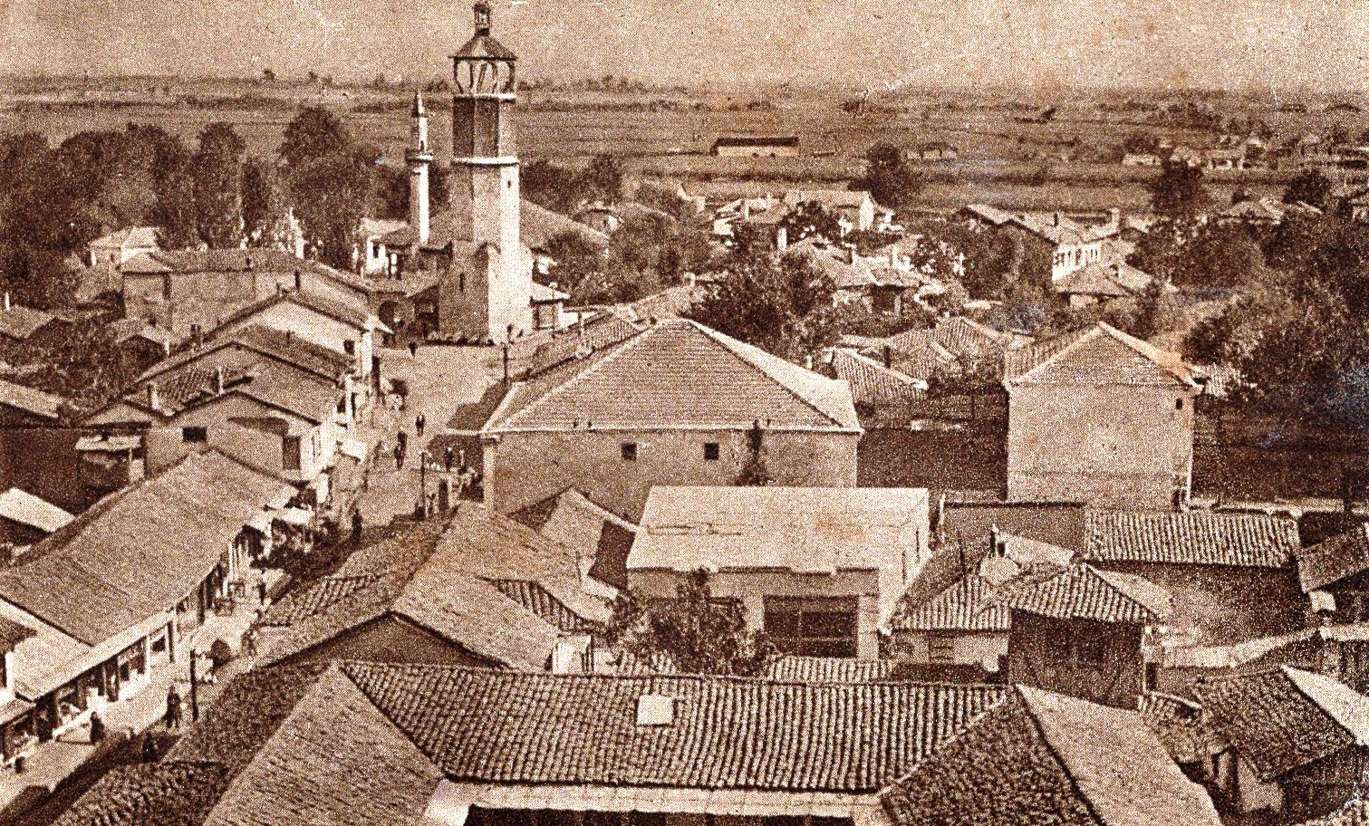 Postcard of Gostivar, with a view of Clock tower. 1930's This media file is produced by Wikipedian in Residence in Category:Wikipedian in Residence at DARM in 2016.